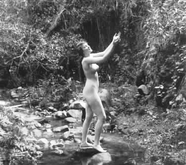 Actress Audrey Munson in the 1916 film "Purity"